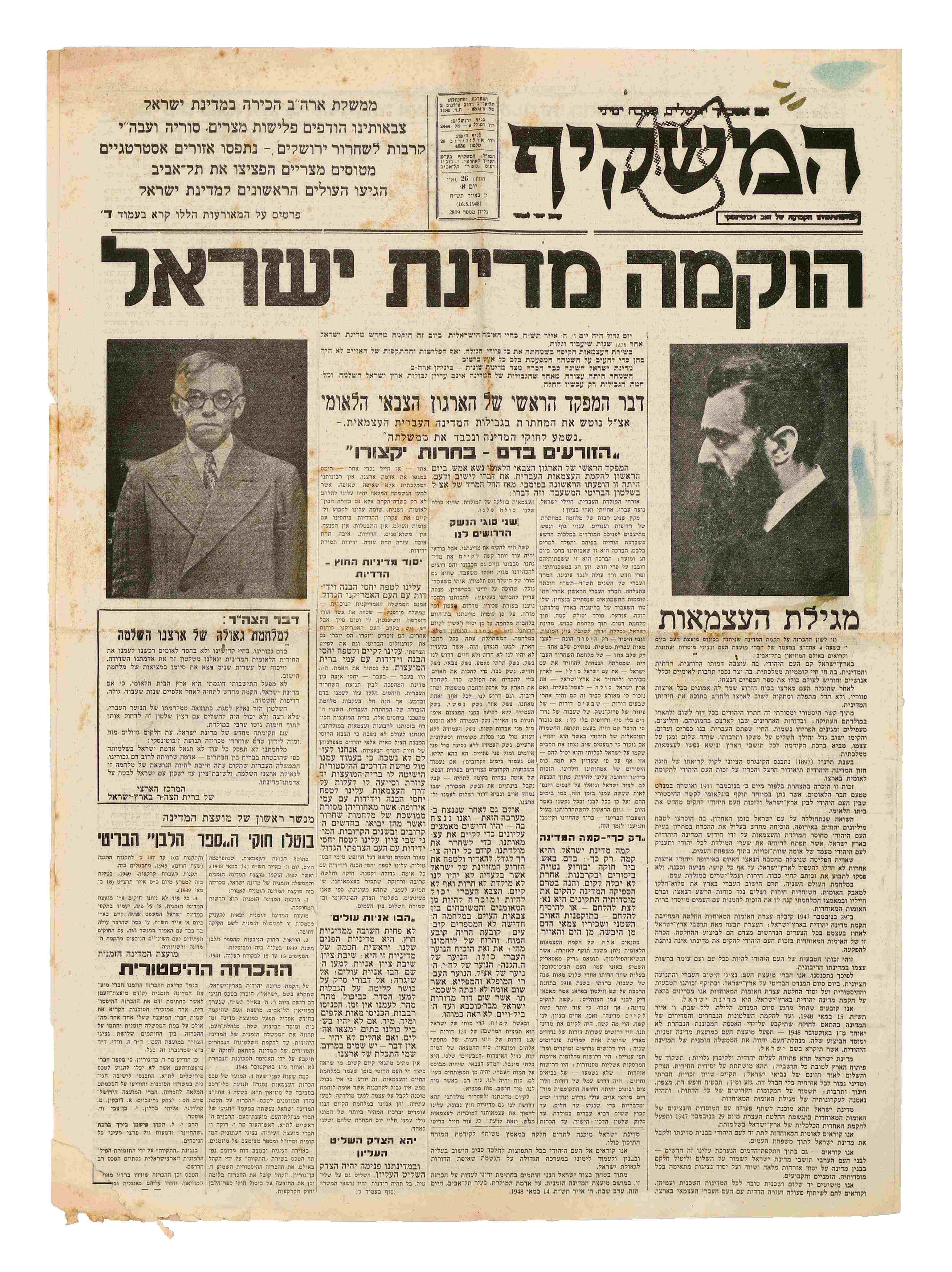 Issue of "HaMashkif", newspaper of the Revisionist Movement in Israel. Sunday, Iyar 7, 1948. The headline announces "State of Israel was established". On the first leaf appear photographs of Herzl and Jabotinsky, the text of the Declaration of Independence and "Words by the Chief Commander of Irgun Tzeva'i Leumi", according to which "Etzel abandons the underground within the borders of a free Jewish state" (Hebrew).